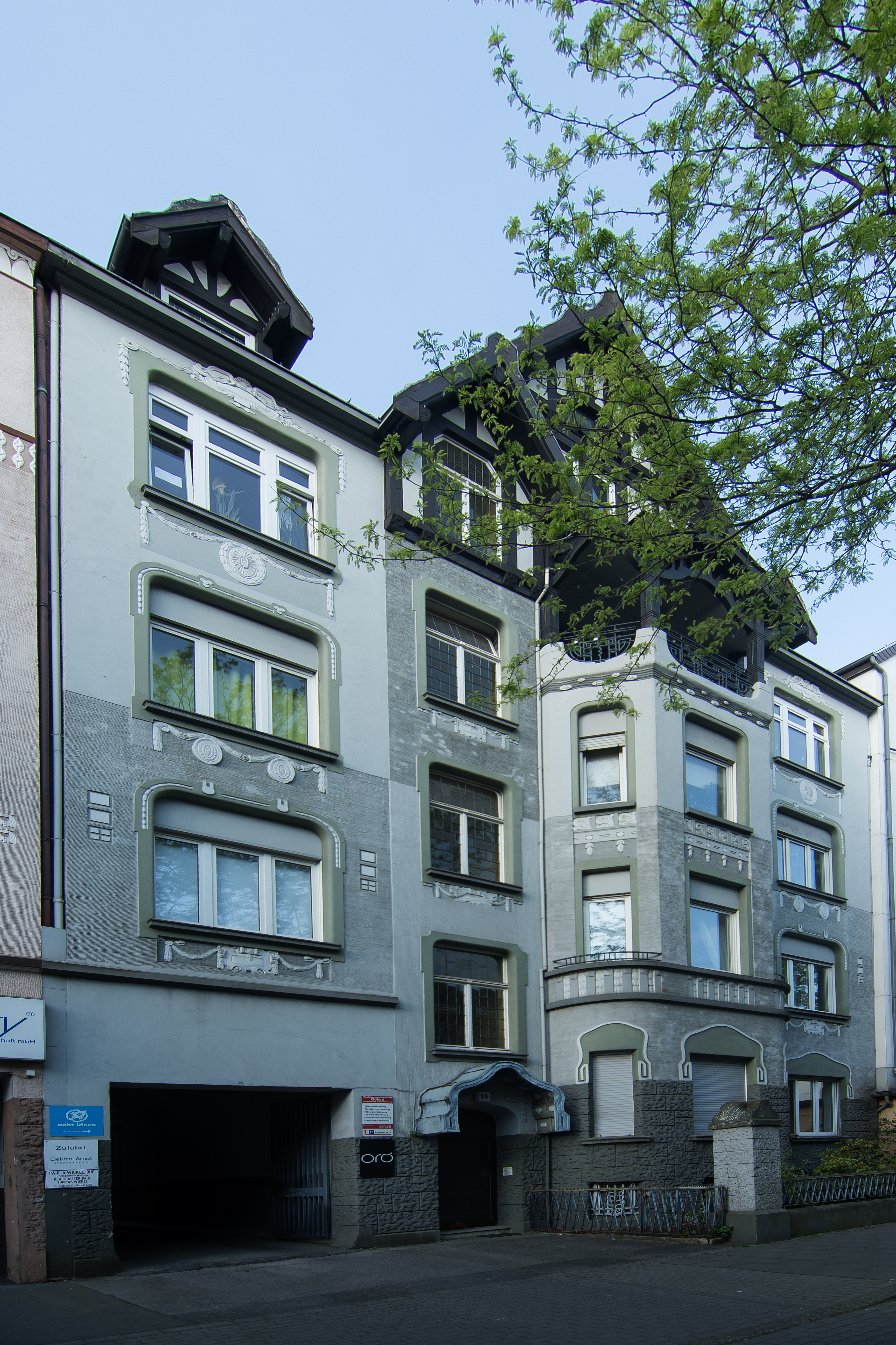 Wohnhaus von Margarethe und Paul Steinmann, Gutenbergstr. 36 in Dortmund